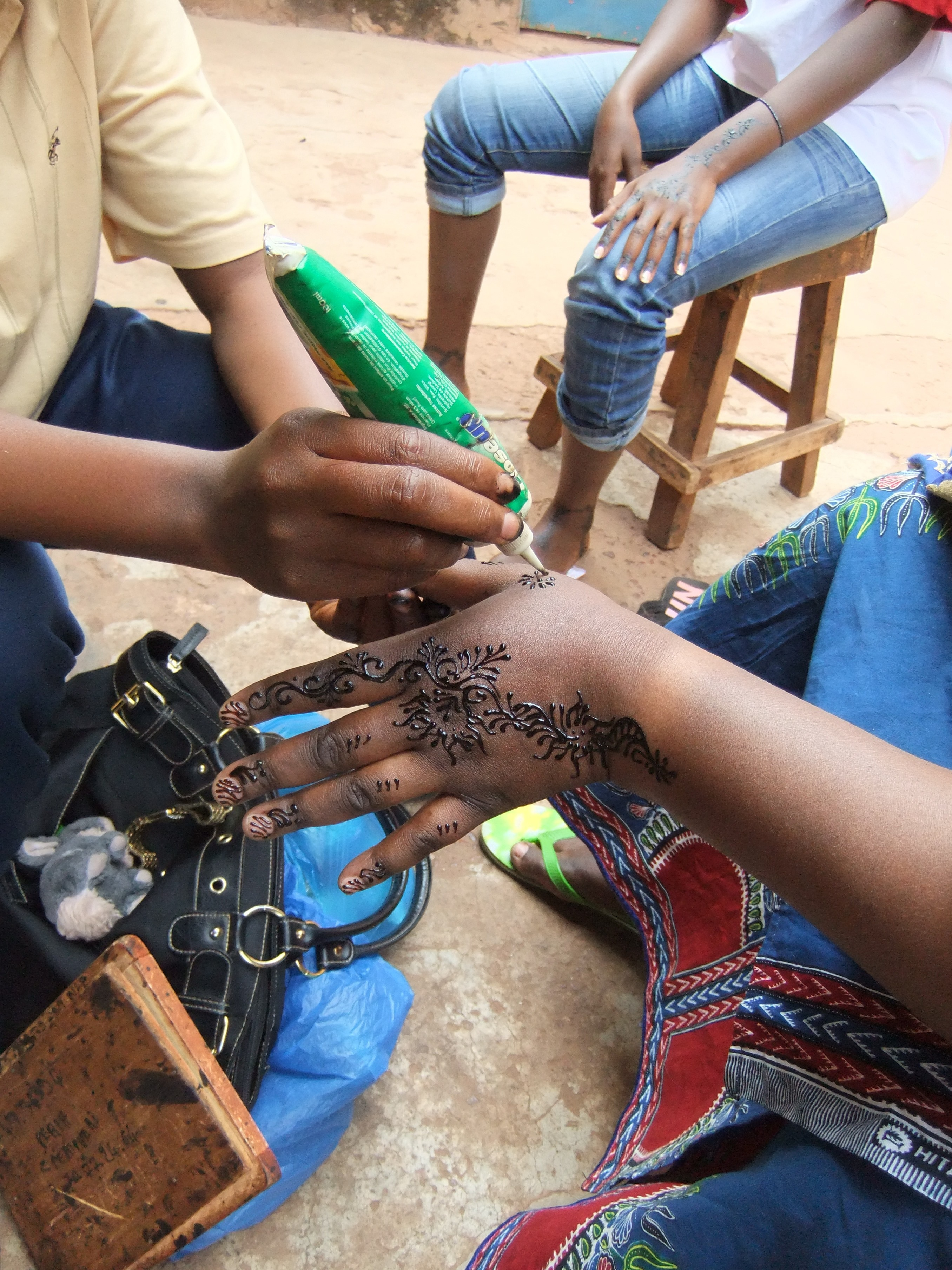 Bobo Dioulasso, Burkina Faso This is an image of "African people at work" from Burkina Faso